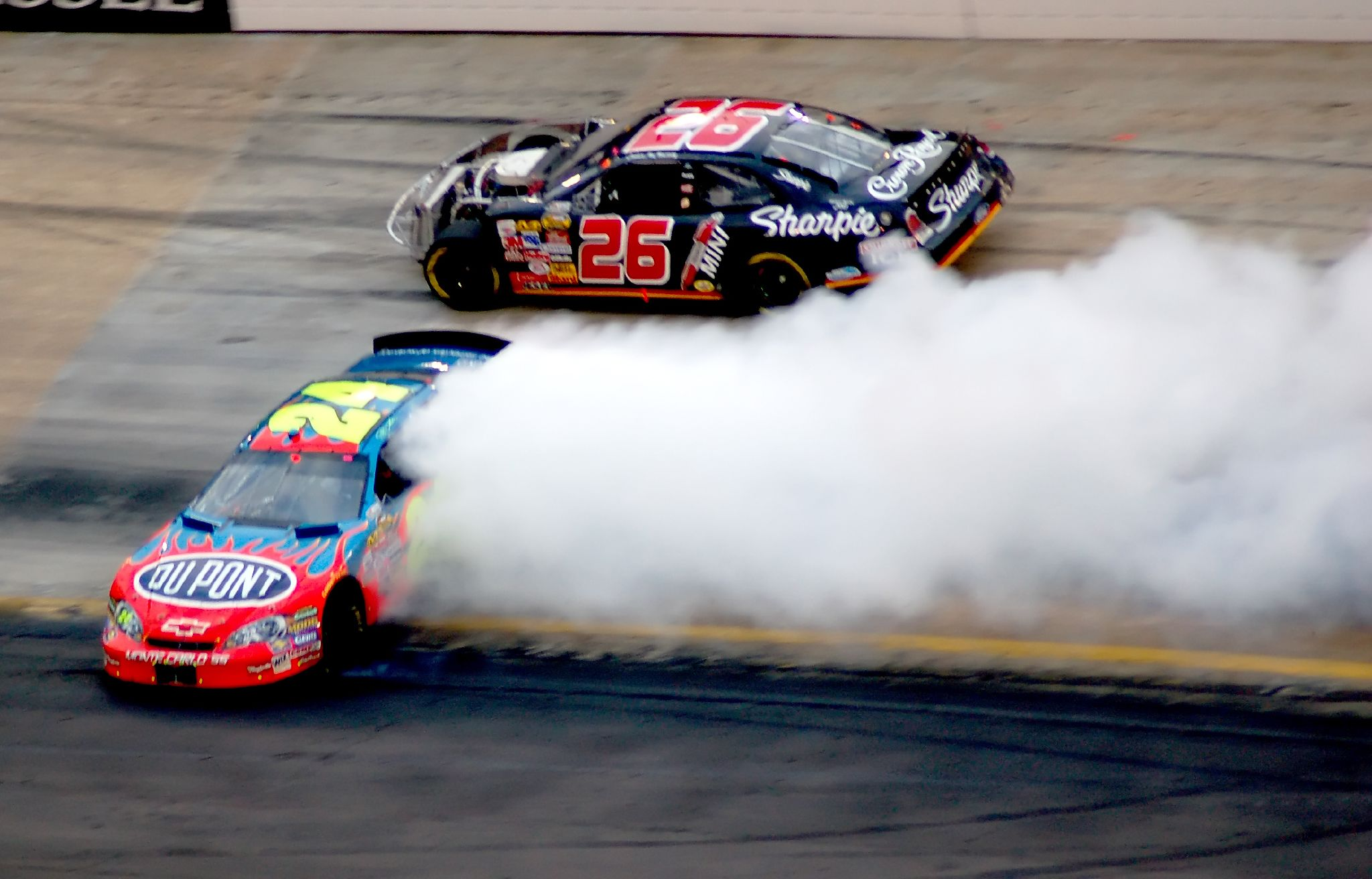 NASCAR 2006 - Jeff Gordon Spins at Bristol via Matt Kenseth.Jeff Gordon Spins at Bristol via Matt Kenseth